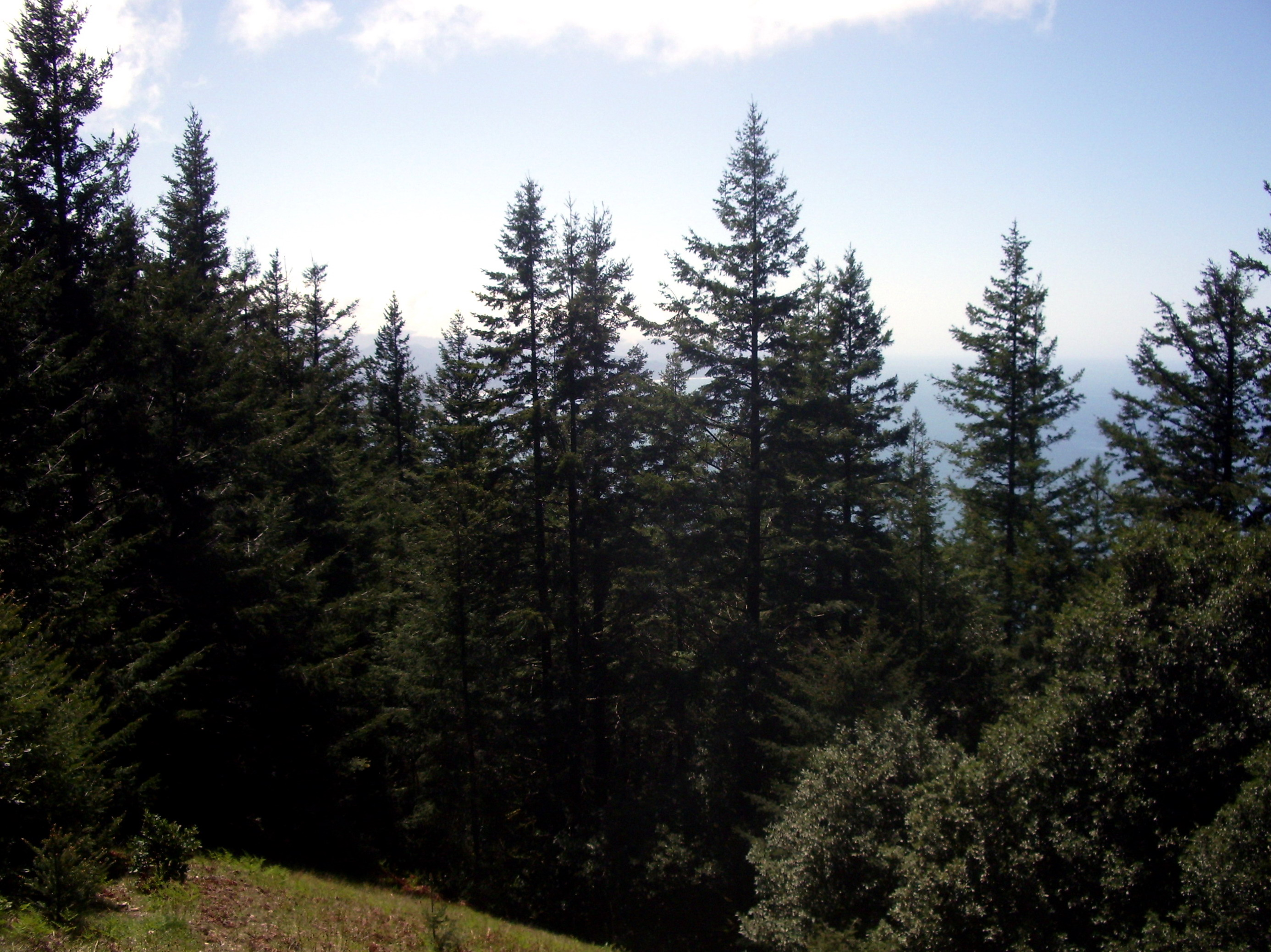 View from the top of Humbug Mountain on the Oregon Coast. This is the direction of the best view of anything, which happens to be toward the southwest (approximately) where some of the Pacific Ocean is visible.